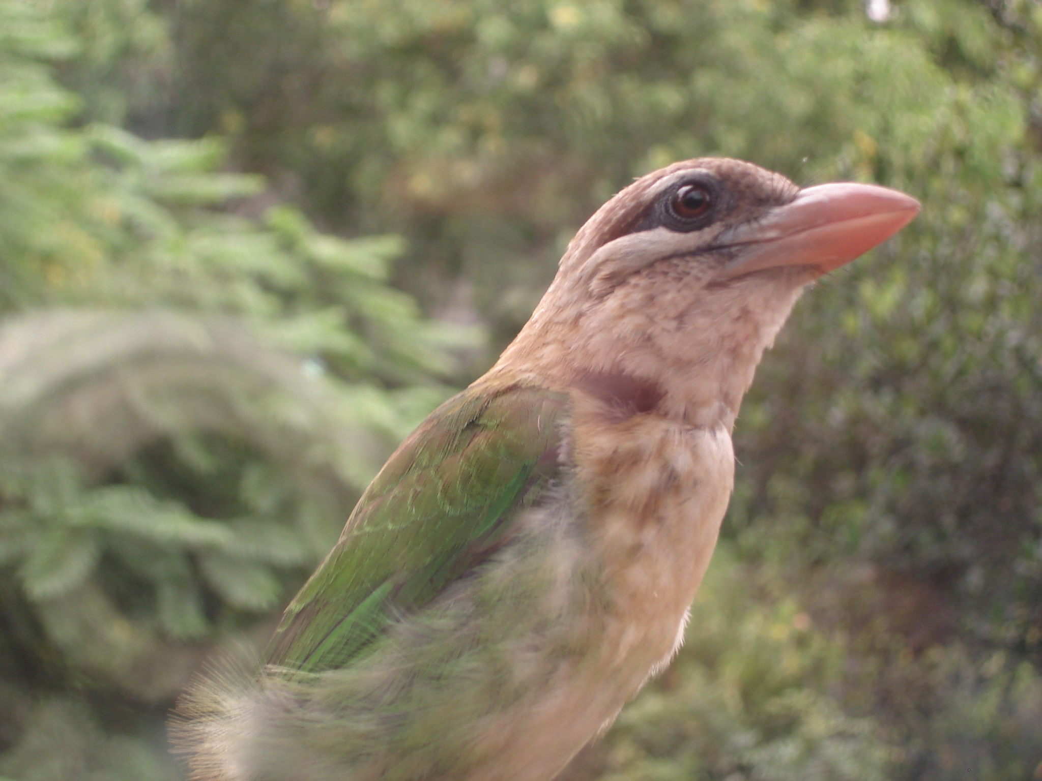 White-cheeked Barbet (also known as Small Green Barbet) at Infosys, Bangalore, India.